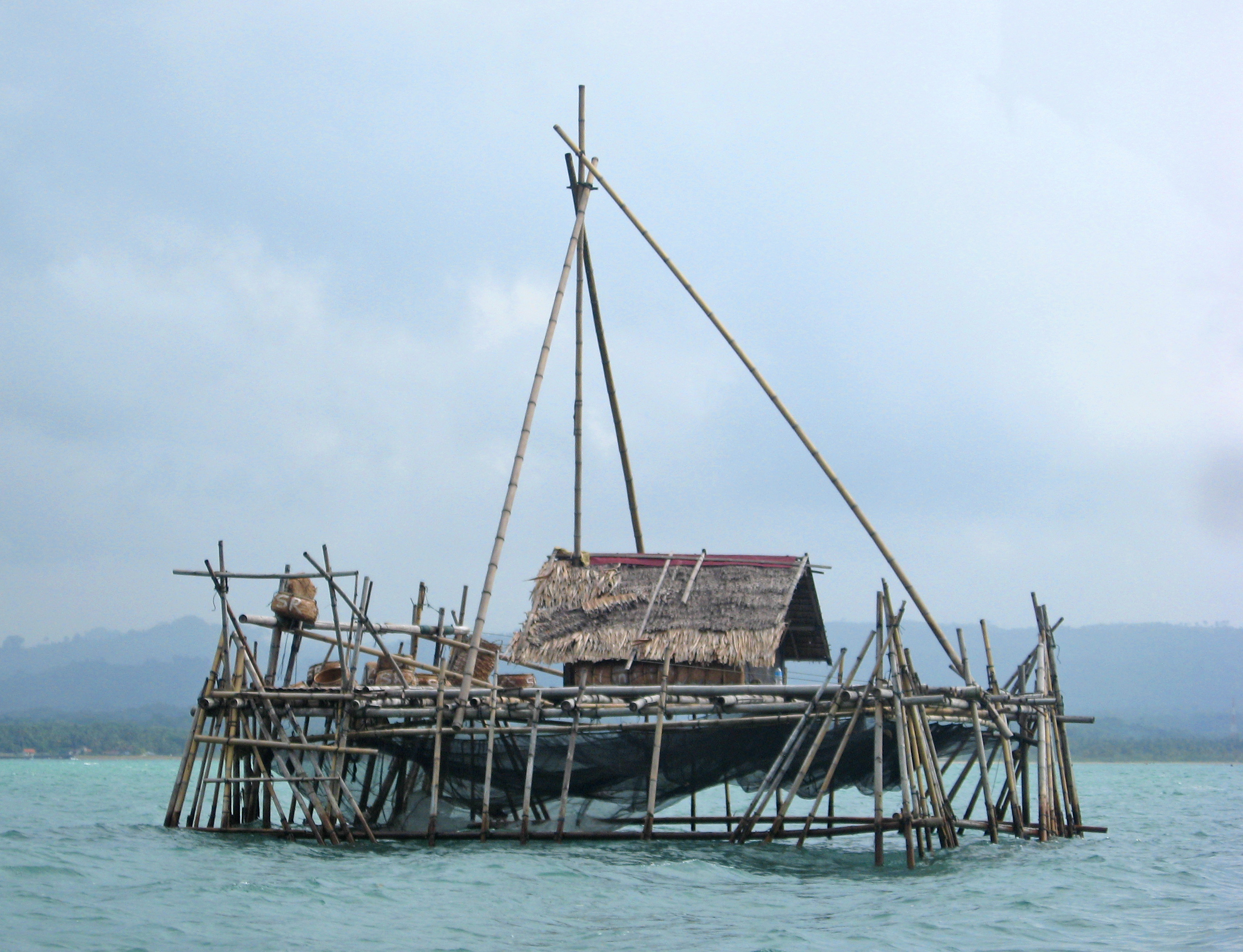 A fisherman's hut at sea in Pangandaran